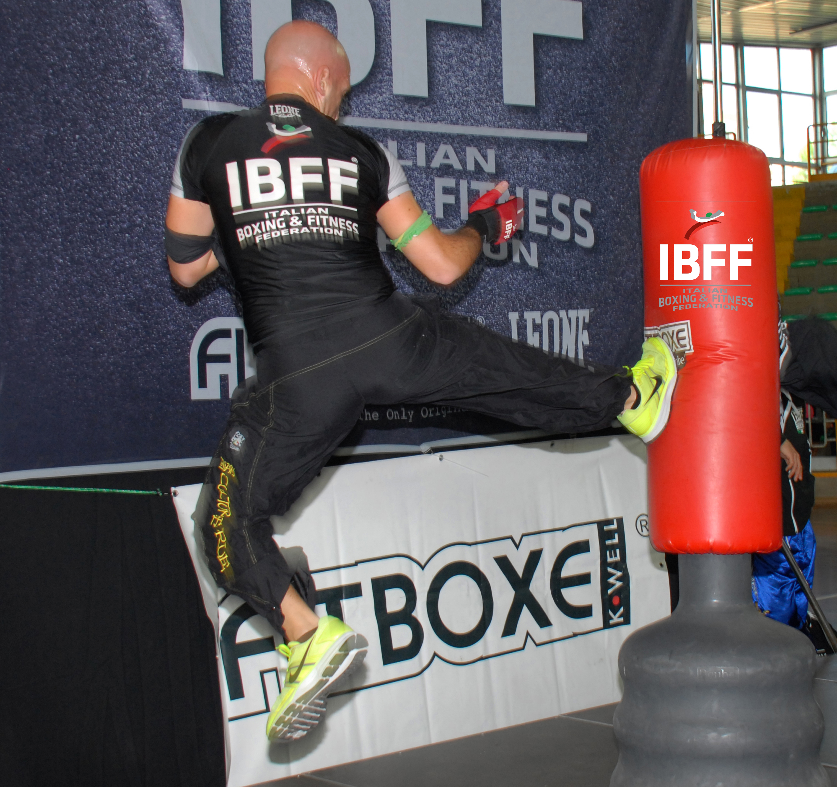 The IBFF® methodology with Master Trainer and founder Vincenzo Mazzarella